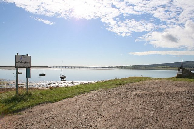 Meikle Ferry slipway. The Dornoch Bridge is on the horizon.